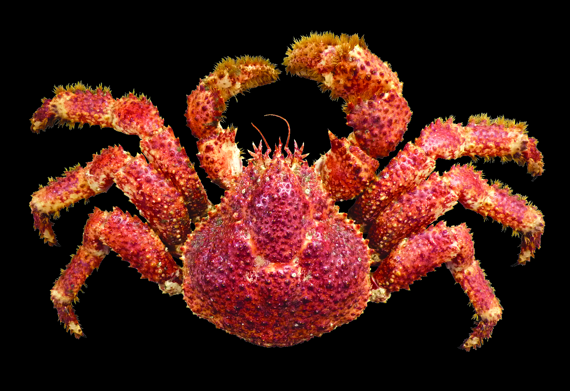 Paralomis granulosa, adult male, ca. 80 mm of carapace length.